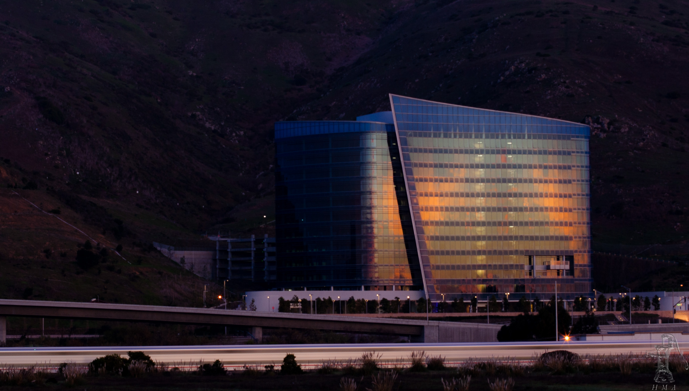 Tried to take some detailed photographs of the building but was thrown off the property by the security guard.